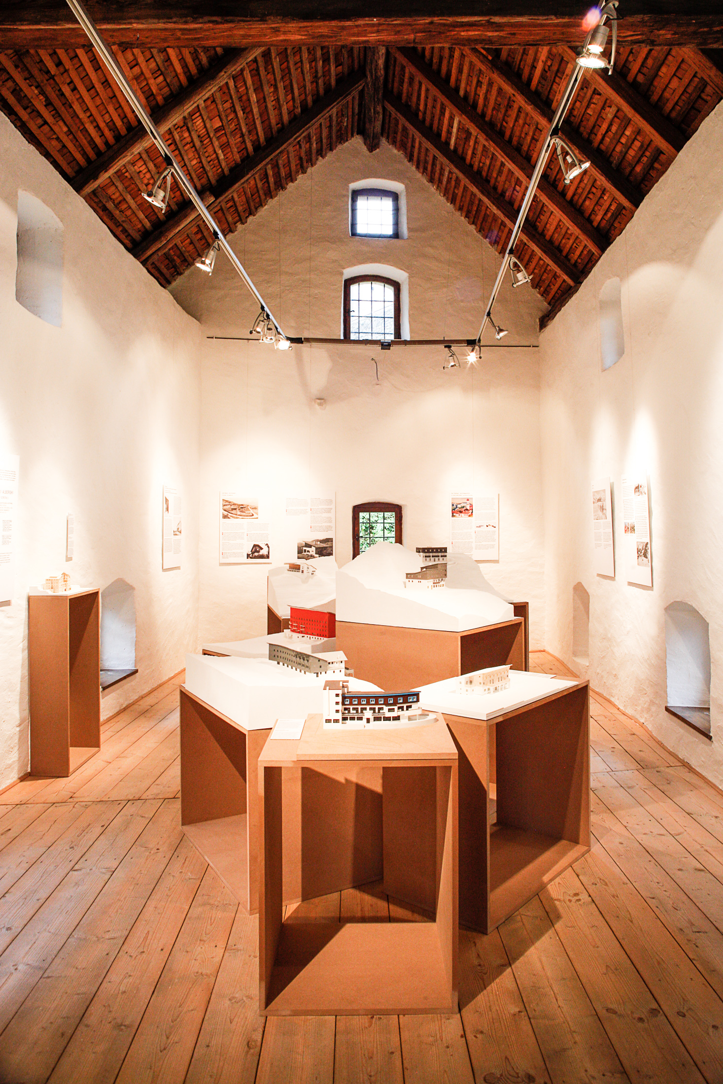 Exhibition "Architecture becomes Region" at Castel Presule, Völs am Schlern/Italy (foto: Gernot Baumann, Berlin-Innsbruck)